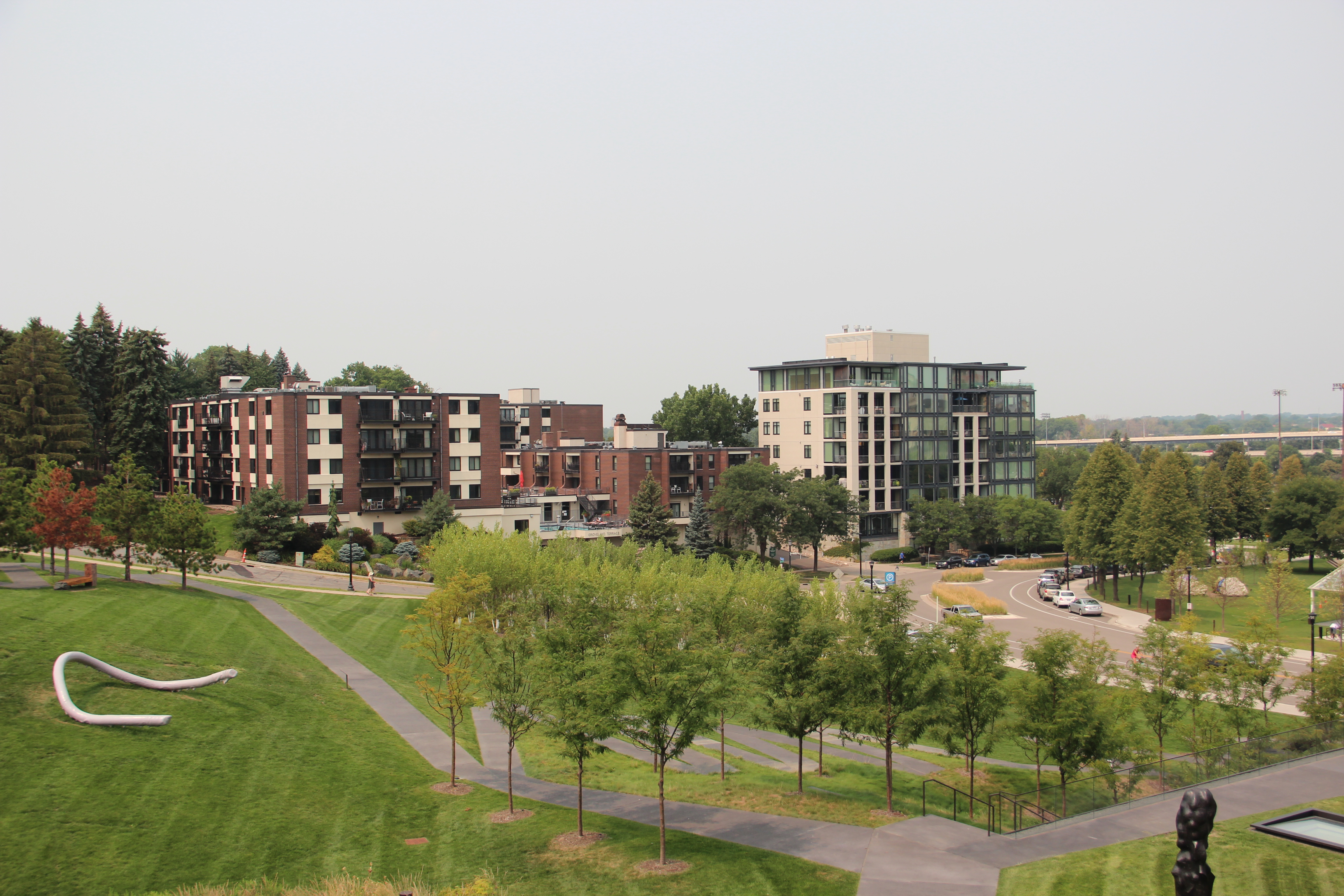 Lowry Hill viewed from Walker Art Center roof